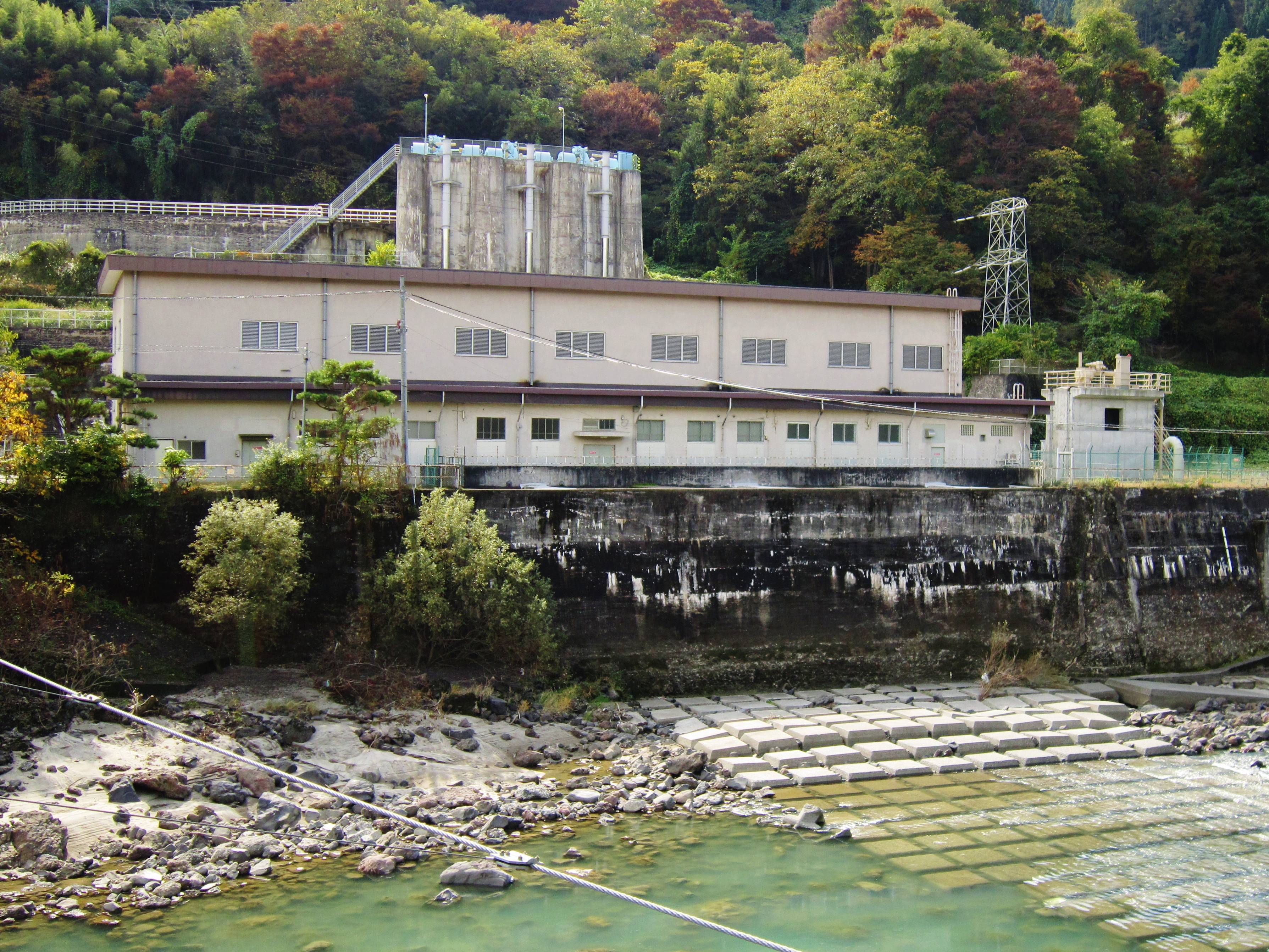 Minochi power station.